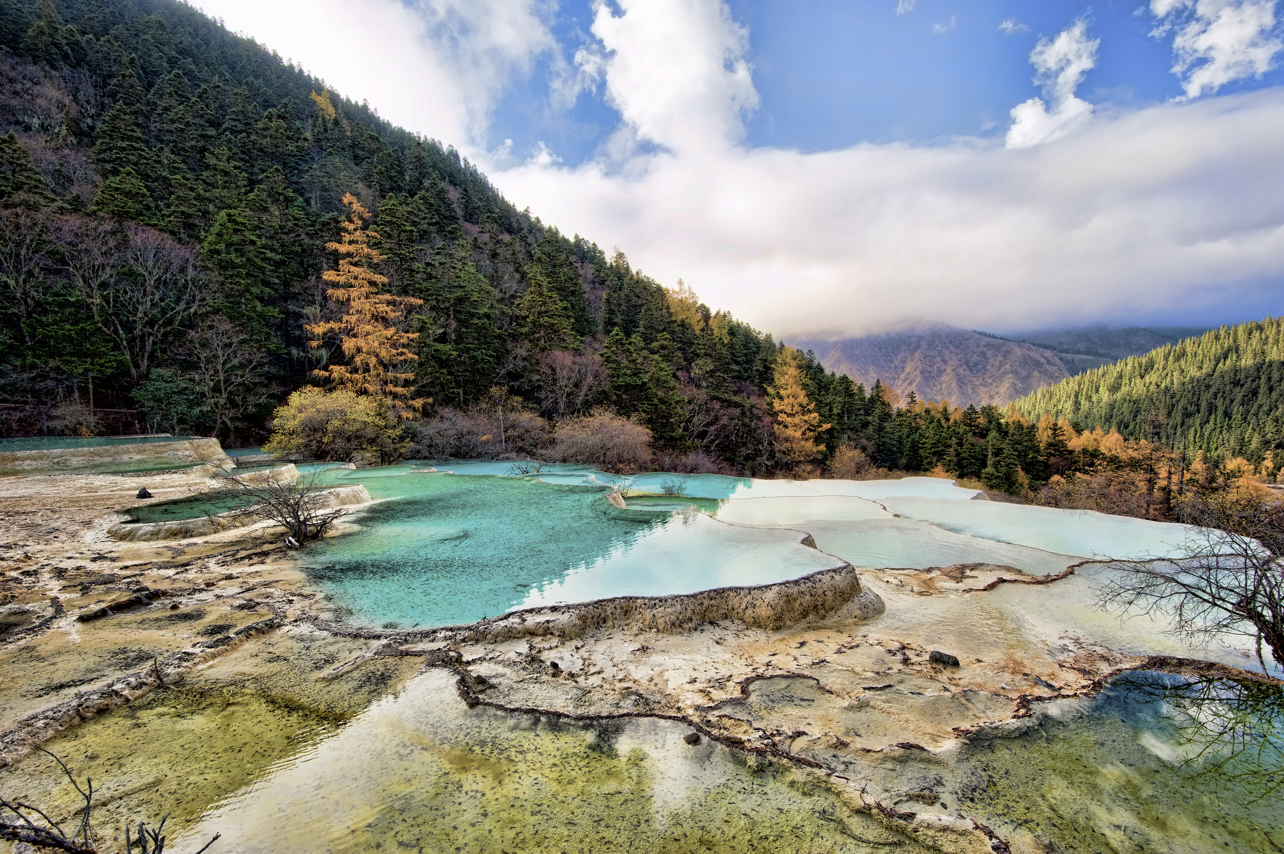 huanglong multi colour pool sichuan china autumn 2011